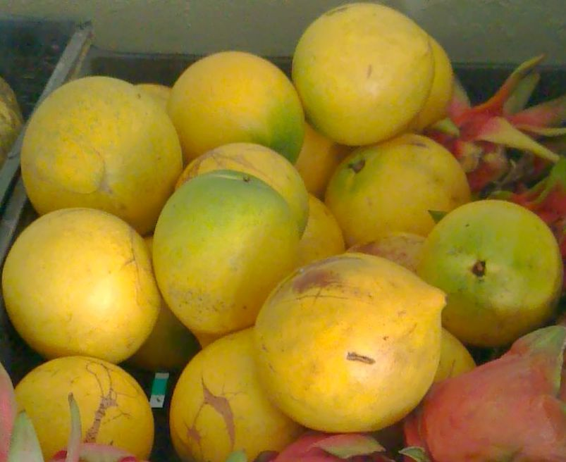 Abiu fruits for sale in August in southern Florida, USA